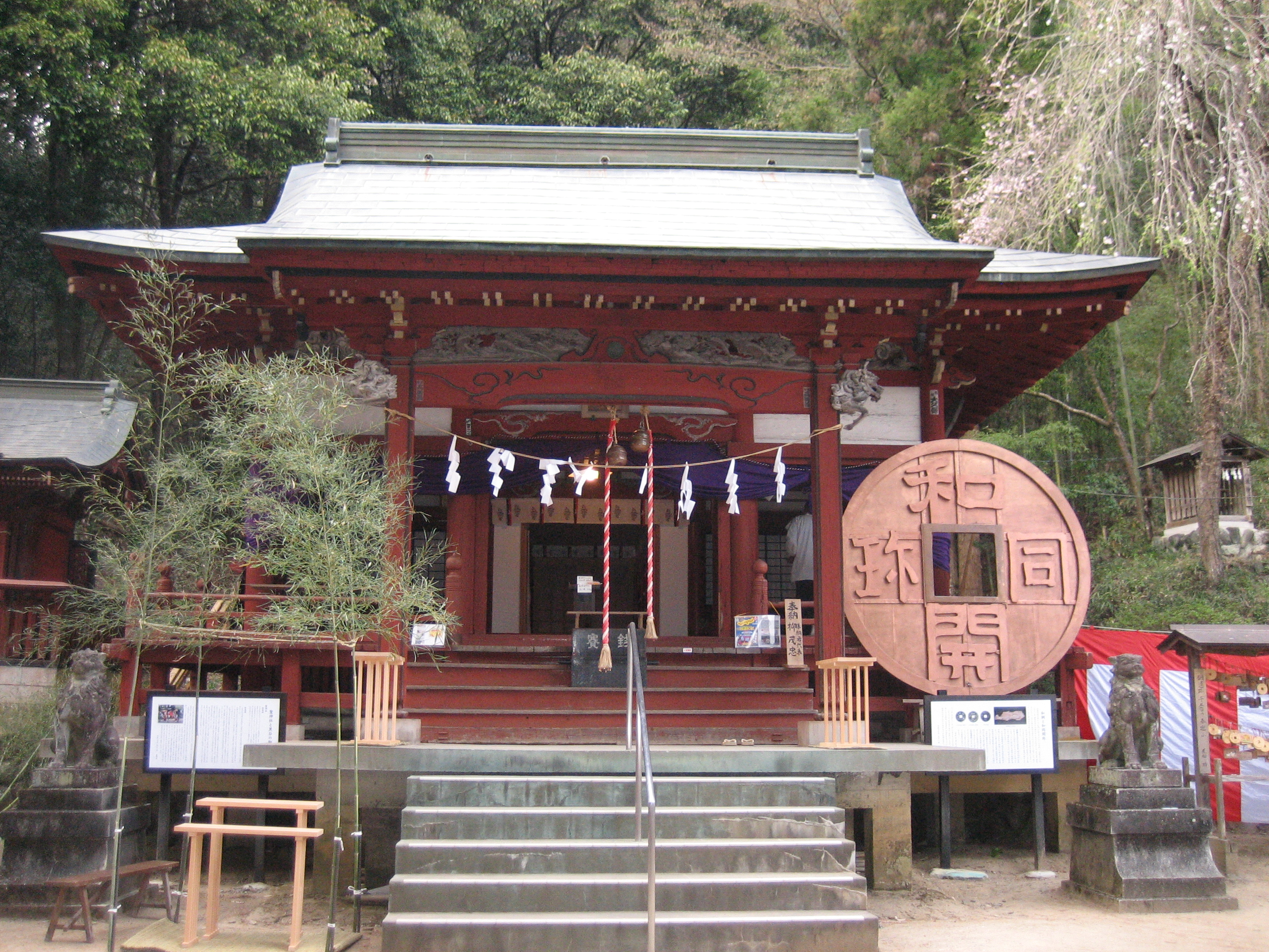 wadou-hijiri-jinjya,Chichibu,Saitama,Japan